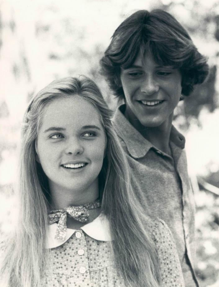 Photo of Mary Ingalls (Melissa Sue Anderson) and John Sanders-Edwards (Radames Pera) from the television program Little House on the Prairie.